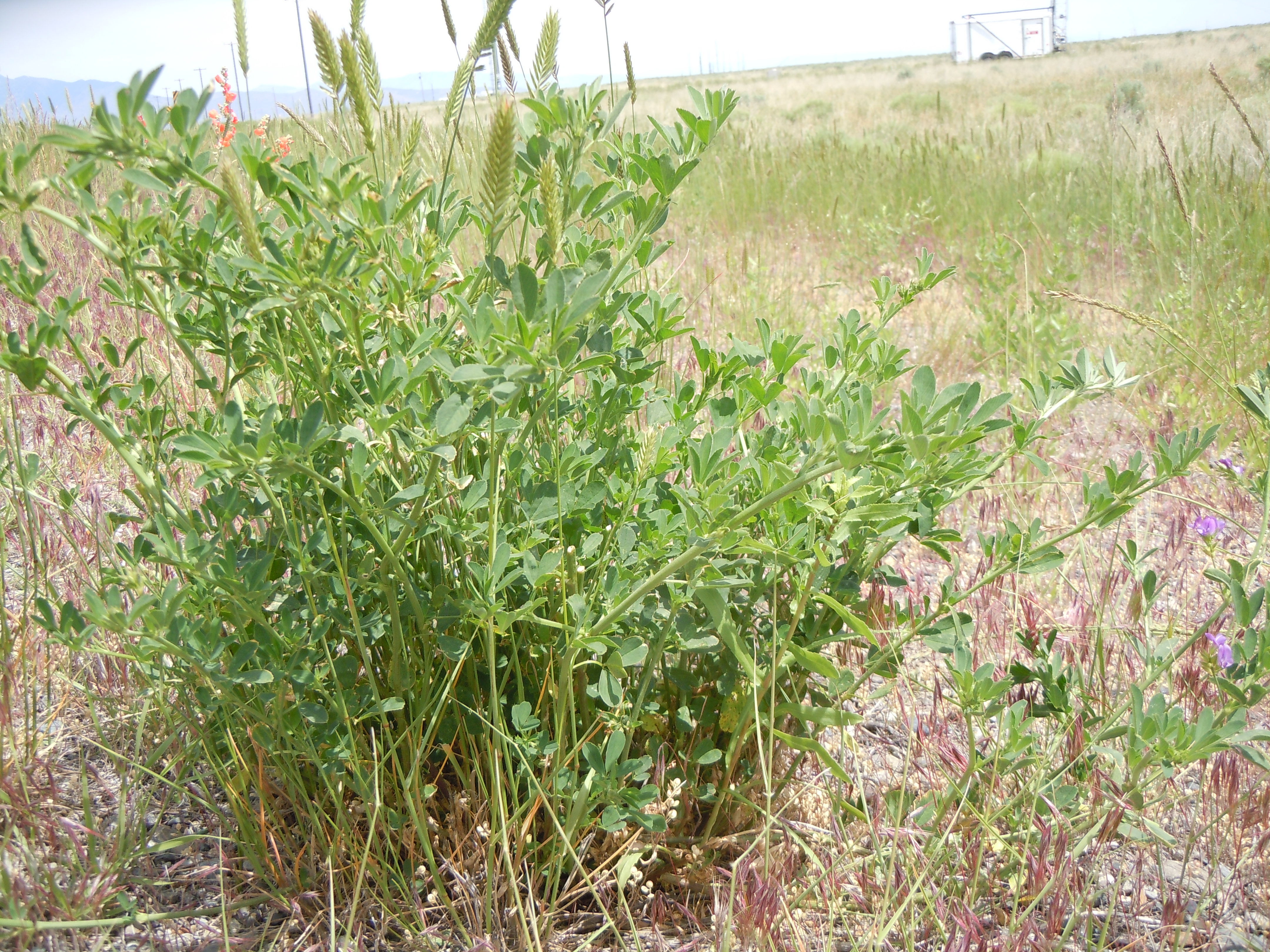 Alfalfa is sometimes a roadside colonizer.